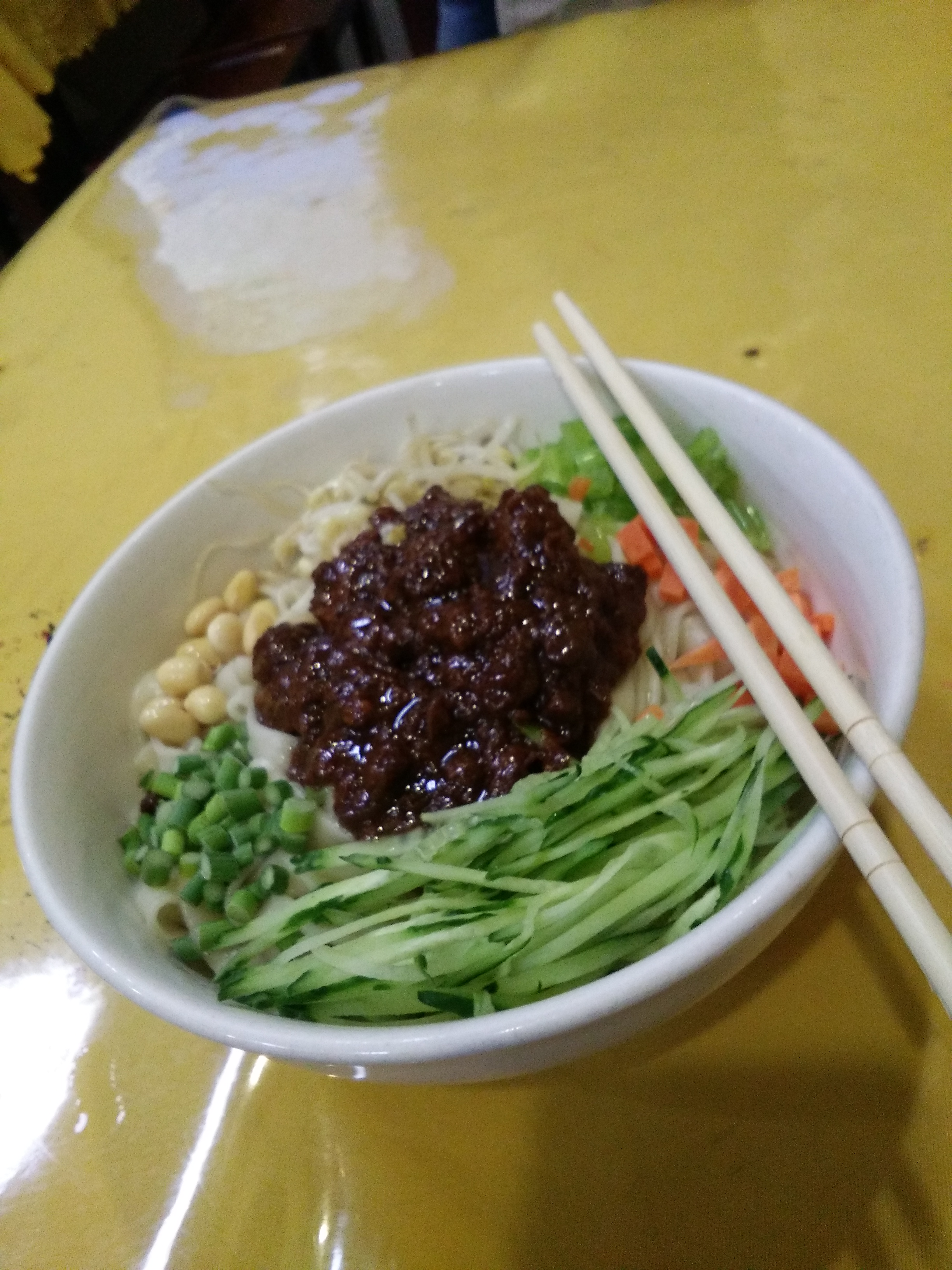 zhajiangmian in Handan.